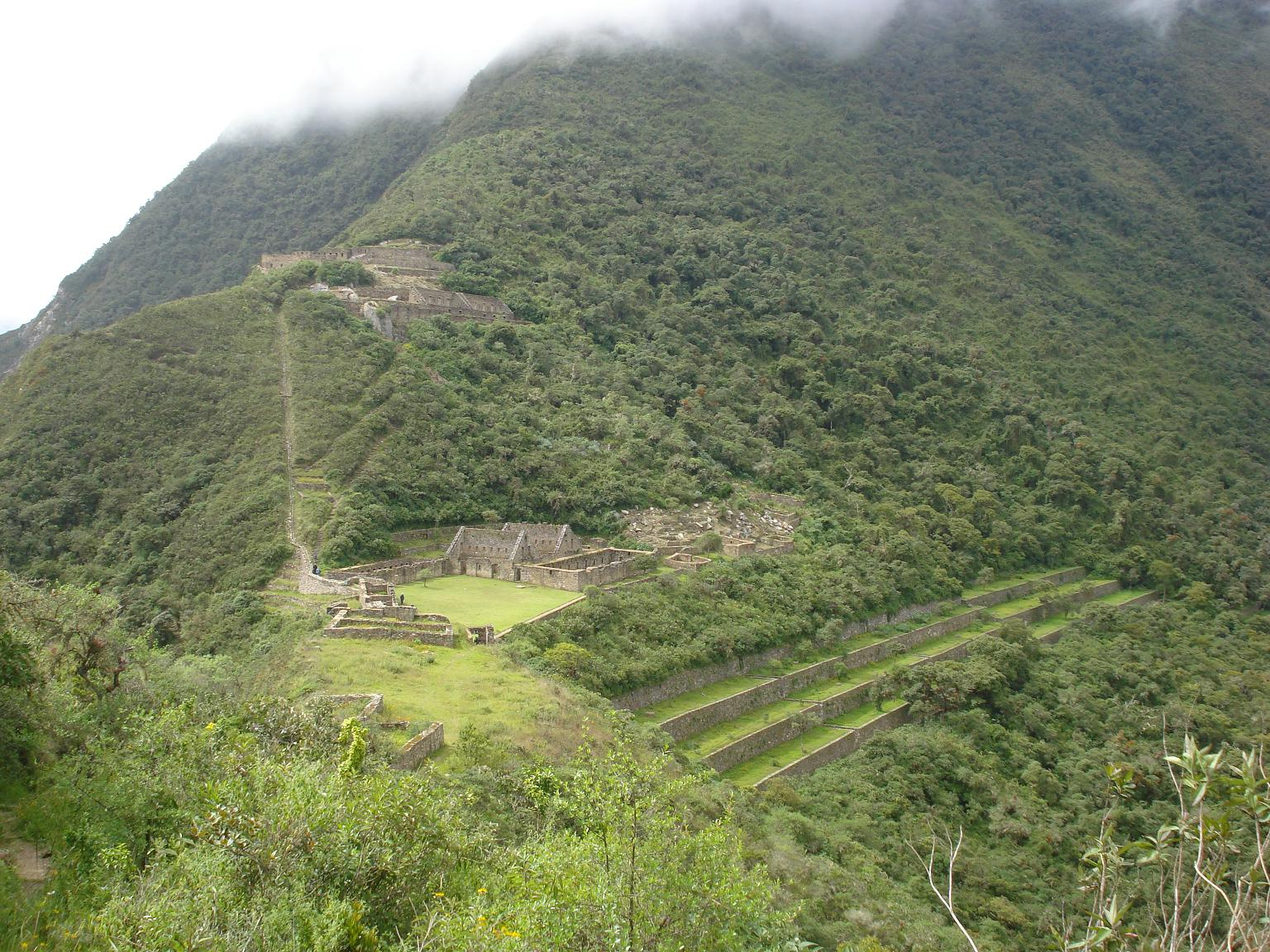 Main Plaza at Choquequirao